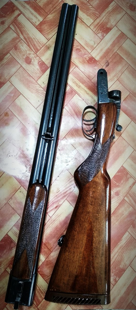 Iran-made double barrel side by side 12G shotgun known as Nakhjeer 2 is a hunting shotgun for birds hunting during hunting season.